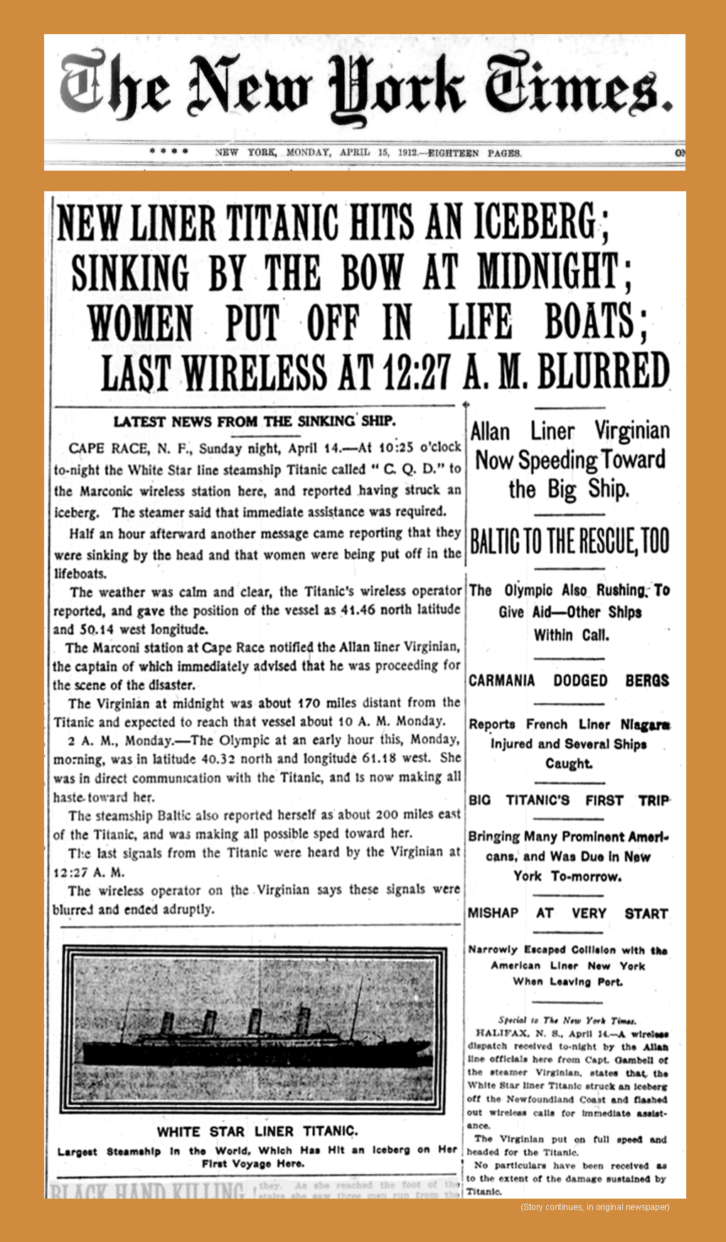 April 15, 1912 article on the front page of The New York Times reporting collision with iceberg by the RMS Titanic. The newspaper went to press before the actual sinking was known.